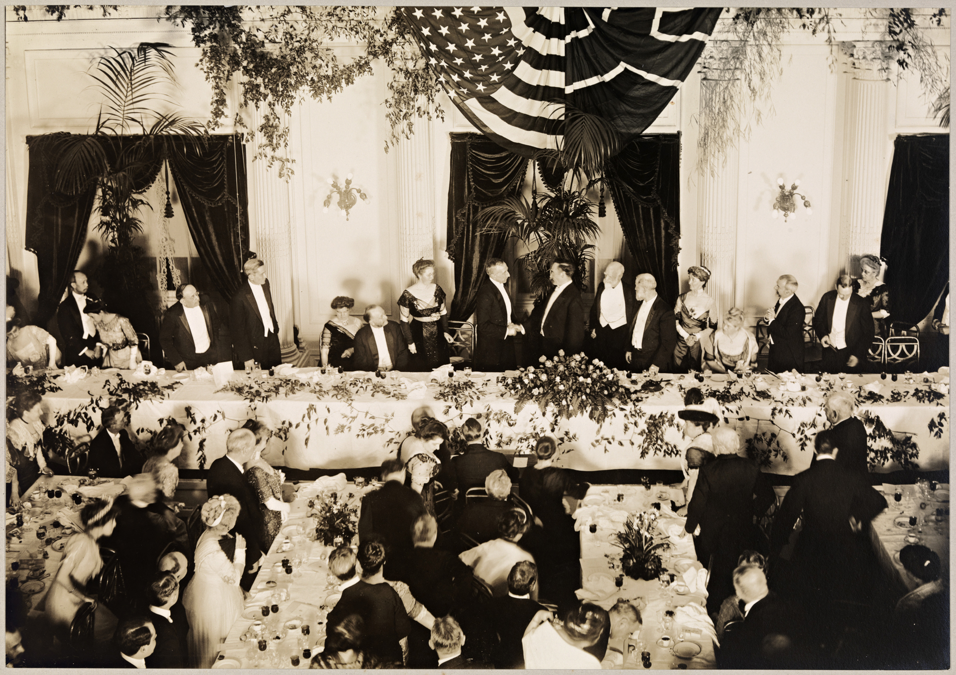 Tittel / Title: Roald Amundsen og Robert Peary under overrekkelsen av The National Society's Gold Medal for ekspedisjonen til Sydpolen Motiv / Motif: Papirpositiv. Dato / Date: 11. januar 1913 Fotograf / Photographer: Harris & Erwin Sted / Place: USA, Washington DC Eier / Owner Institution: Nasjonalbiblioteket / National Library of Norway Lenke / Link: Bildesignatur / Image Number: bldsa_SURA0043